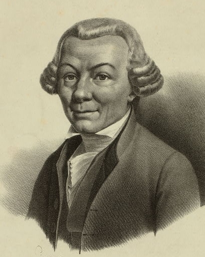 French physician and encyclopedist Paul-Joseph Barthez (1734-1806)